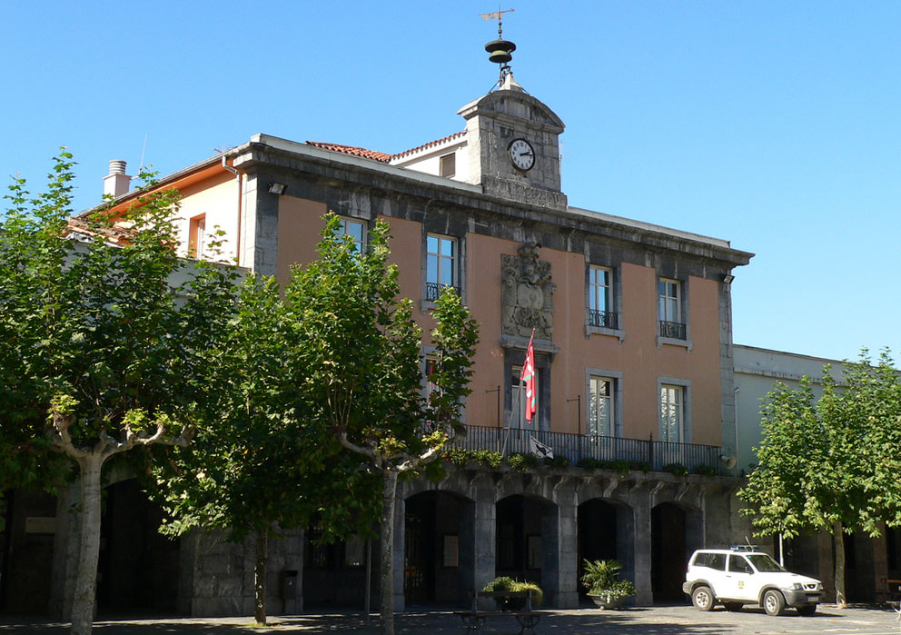 Town hall, Villabona (Guipúzcoa, Spain)